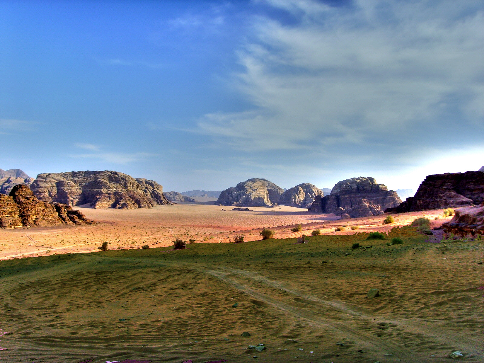 Wadi Rum